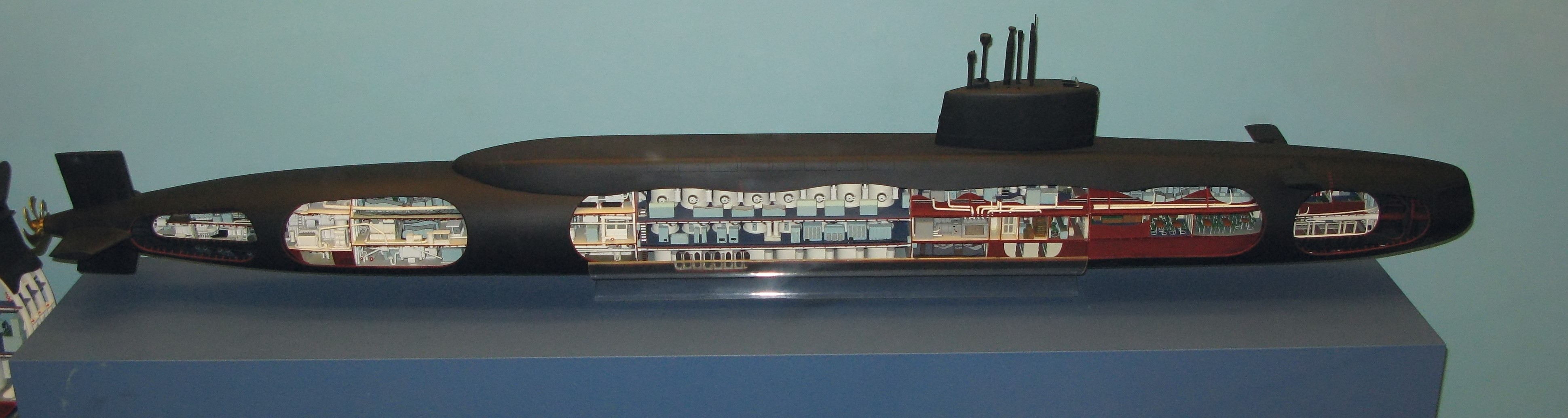 Cutaway model of HMS Resolution (S22)